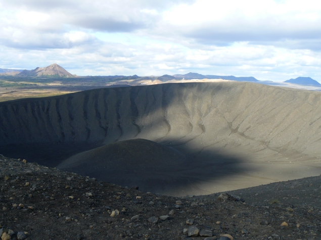 Hverfjall crater from south